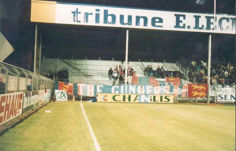 fans from Caen in Auxerre